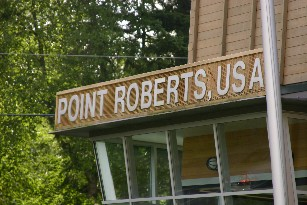 US-Canadian border at Point Roberts, WA, USA